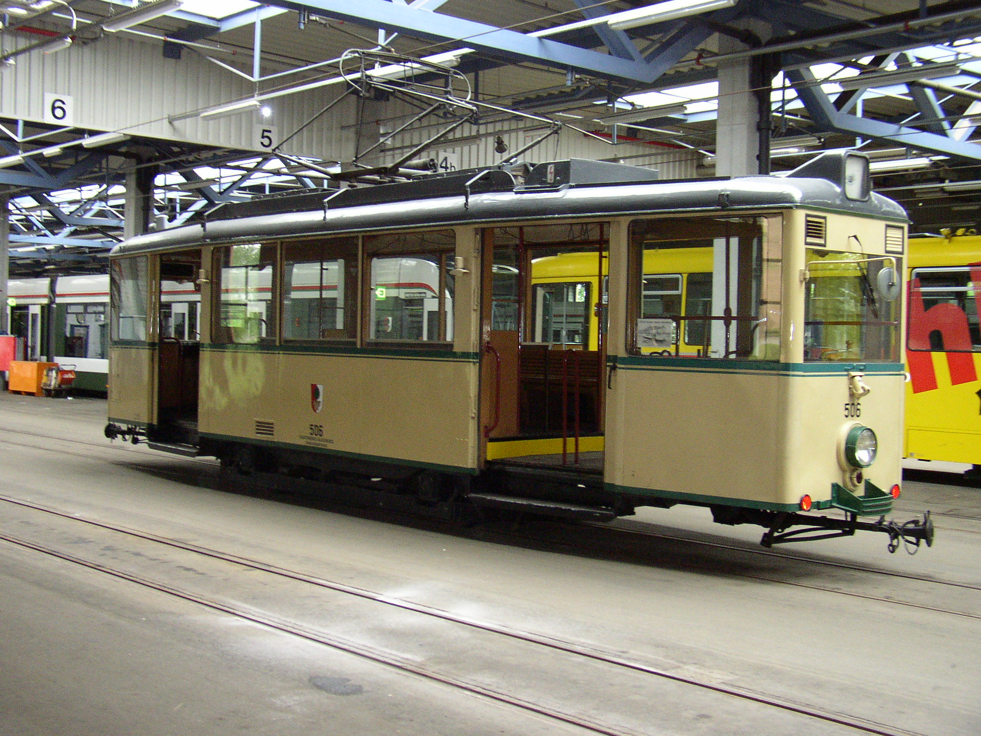 Tram of type series 506 (year of manufacture: 1948) in Augsburg